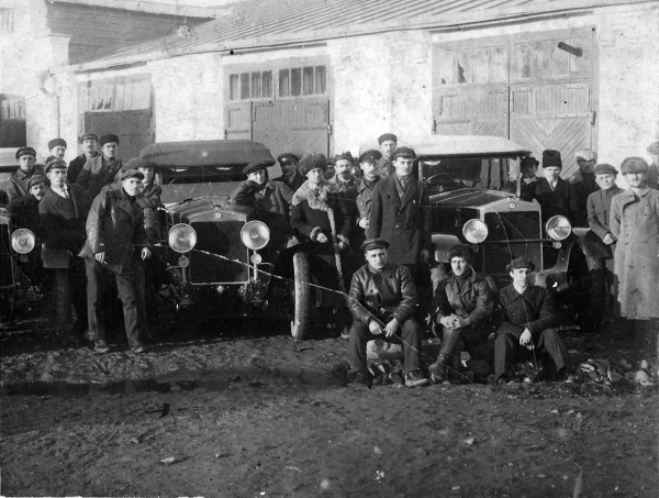 garage, 1925